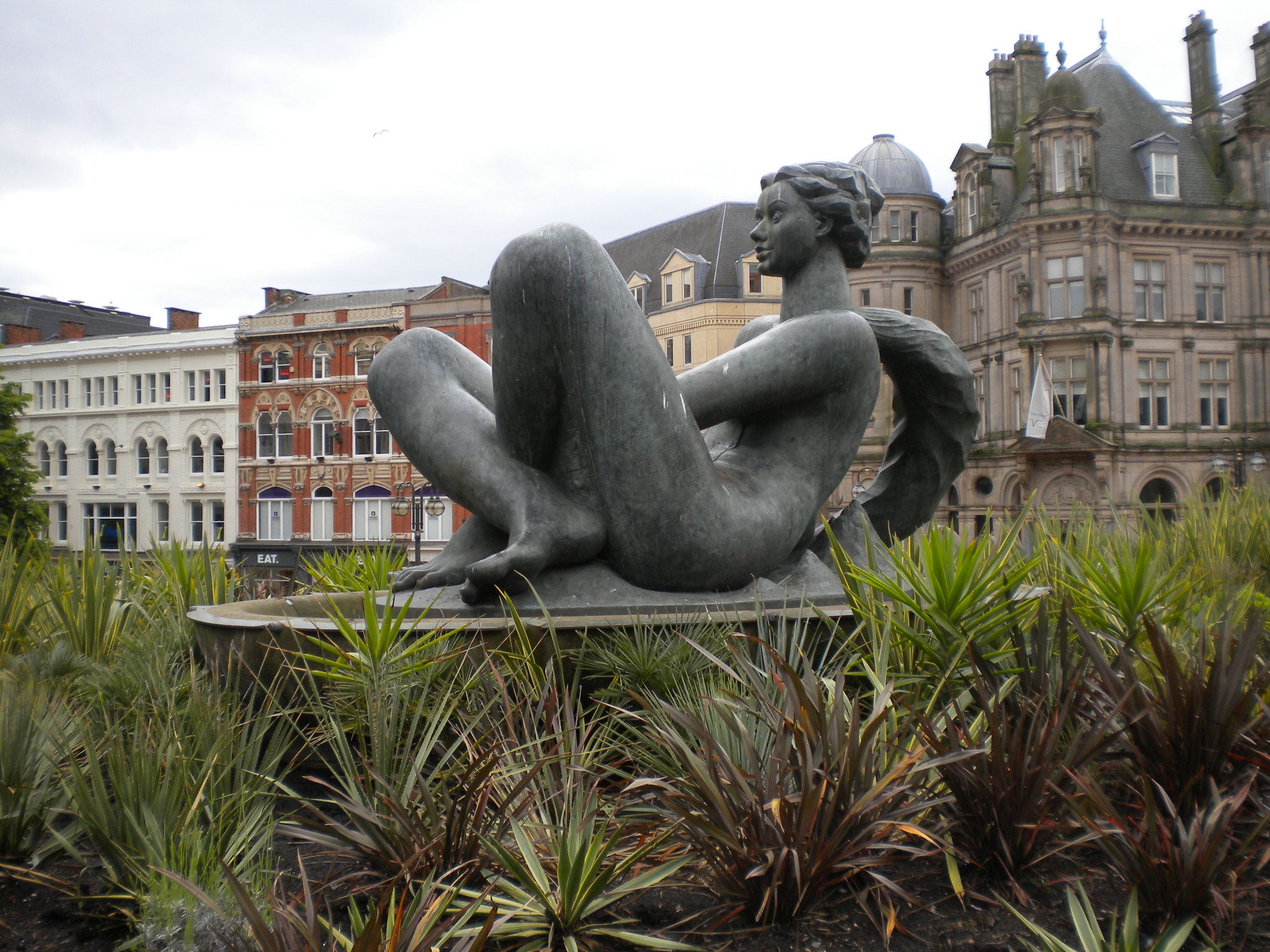 The River by Dhruva Mistry in Victoria Square, Birmingham. The central figure of a woman used to be surrounded by water, and was known as the Floozie in the Jacuzzi. It is now in the centre of a flowerbed (2016).